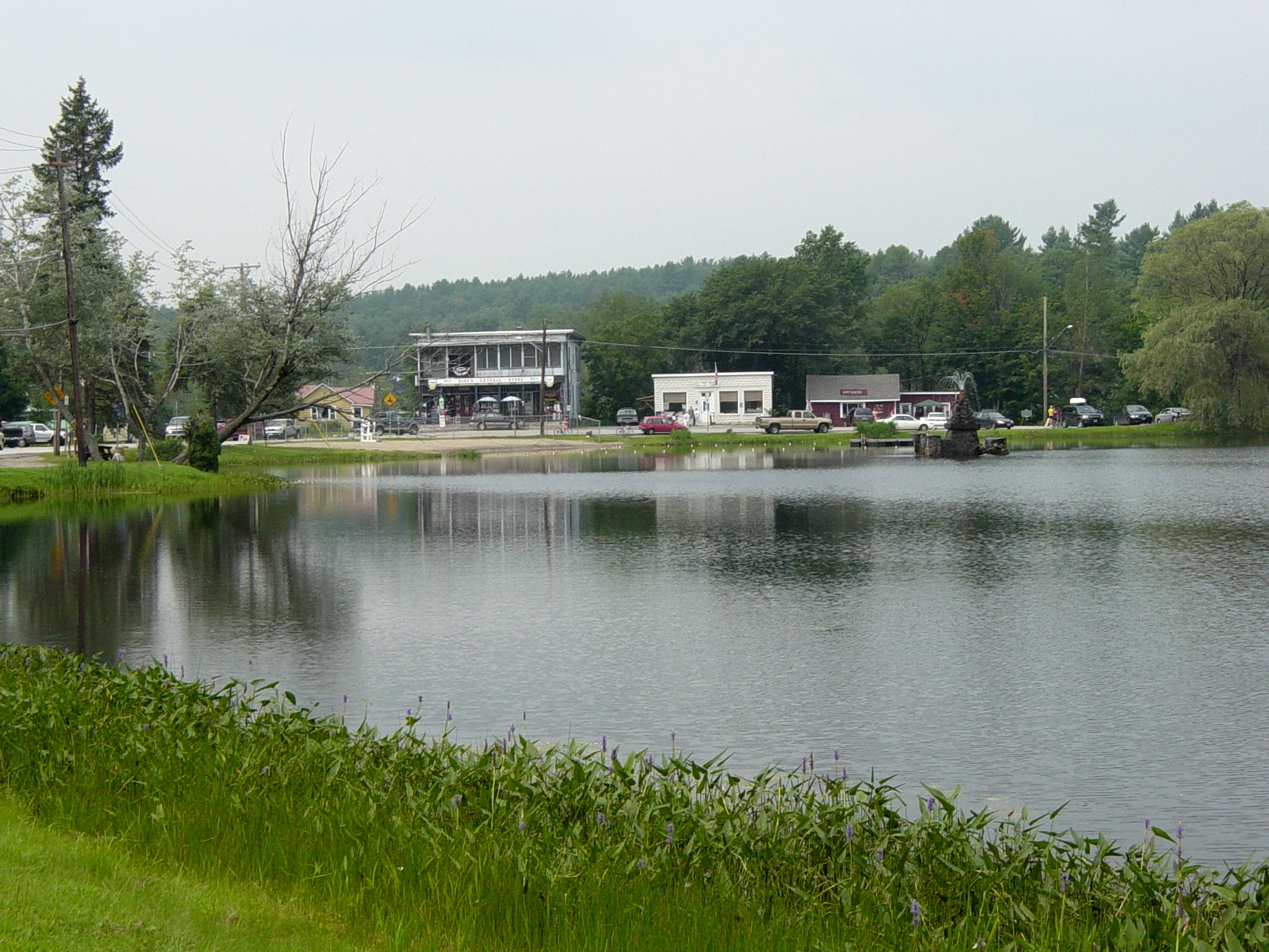 This is an image of Brant Lake, New York before a fire destroyed Daby's General Store.